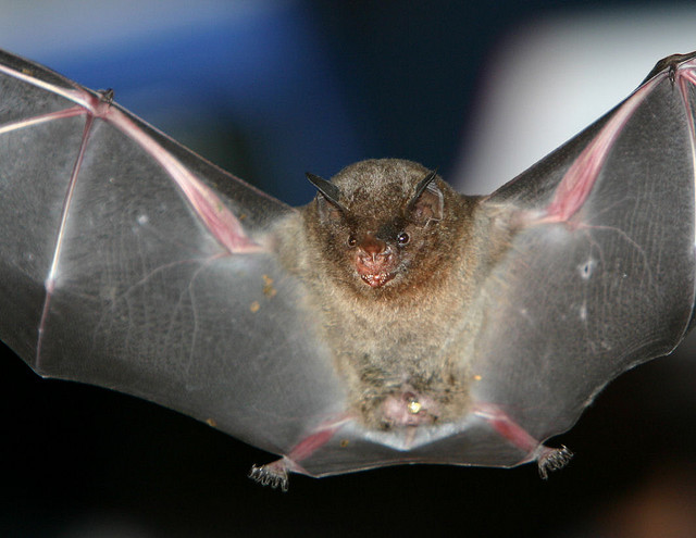 Carollia brevicauda with wings held extended. Taken in Colombia.